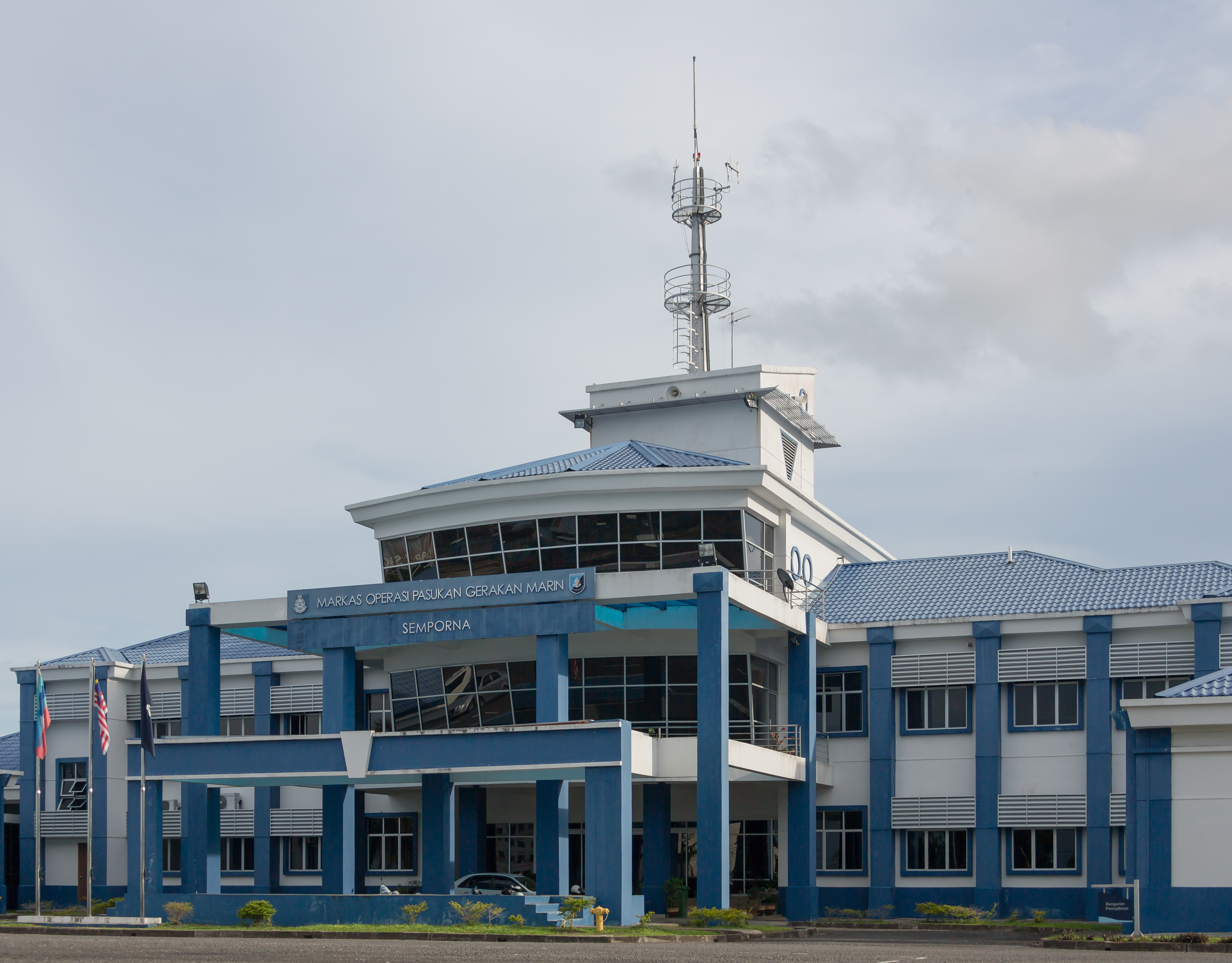 Semporna, Sabah: "Markas Operasi Pasukan Gerakan Marin", the headquarters for maritime special operations of Royal Police of Malaysia PDRM